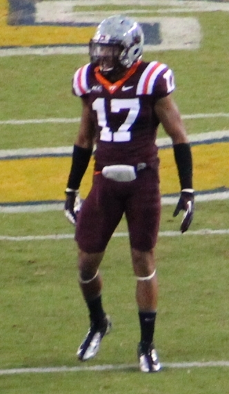 Cornerback Kyle Fuller, 2013